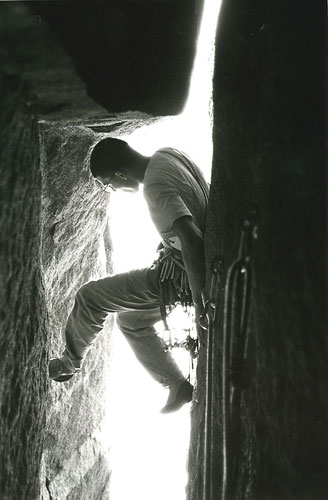 Yosemite's classic pitch "The Narrows" on the North Face of Sentinel Rock swallows Ryan Frost, 1996.